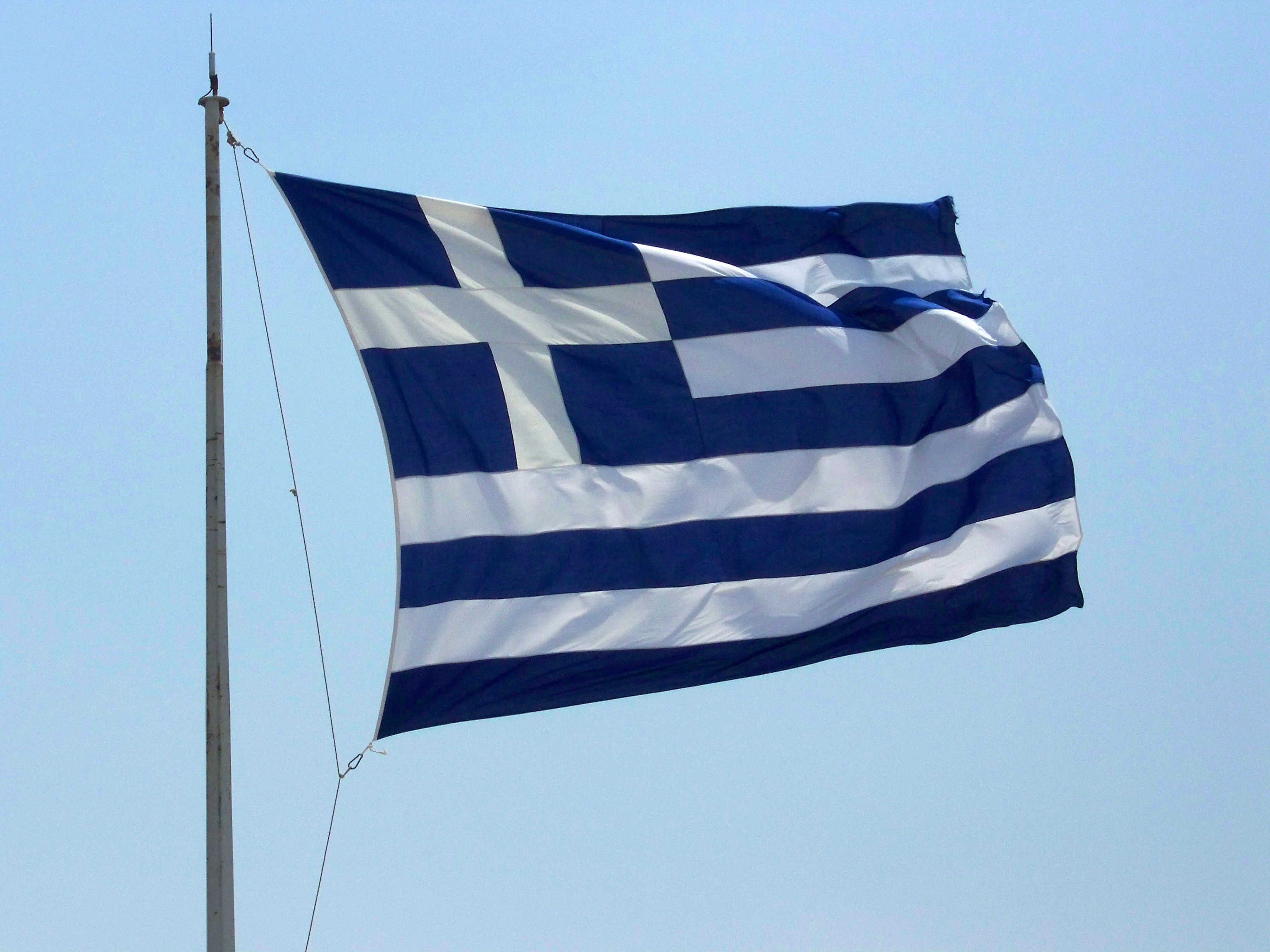 Greek flag over the eastern corner of the Acropolis in Athens, Greece.